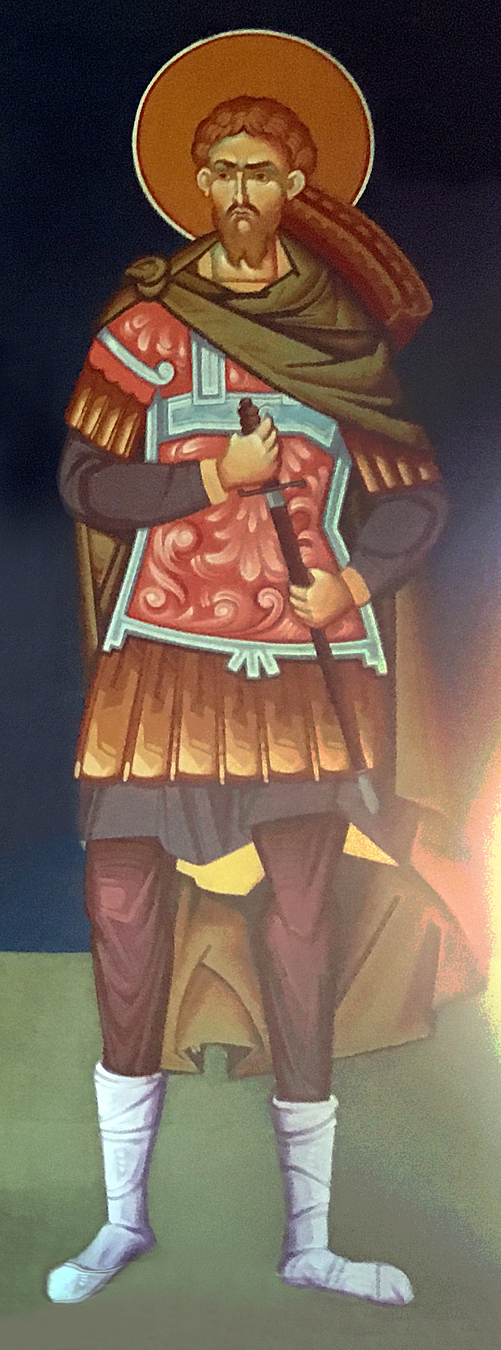 Saint Theodore of Amasea (contemporary orthodox iconography) Serbia